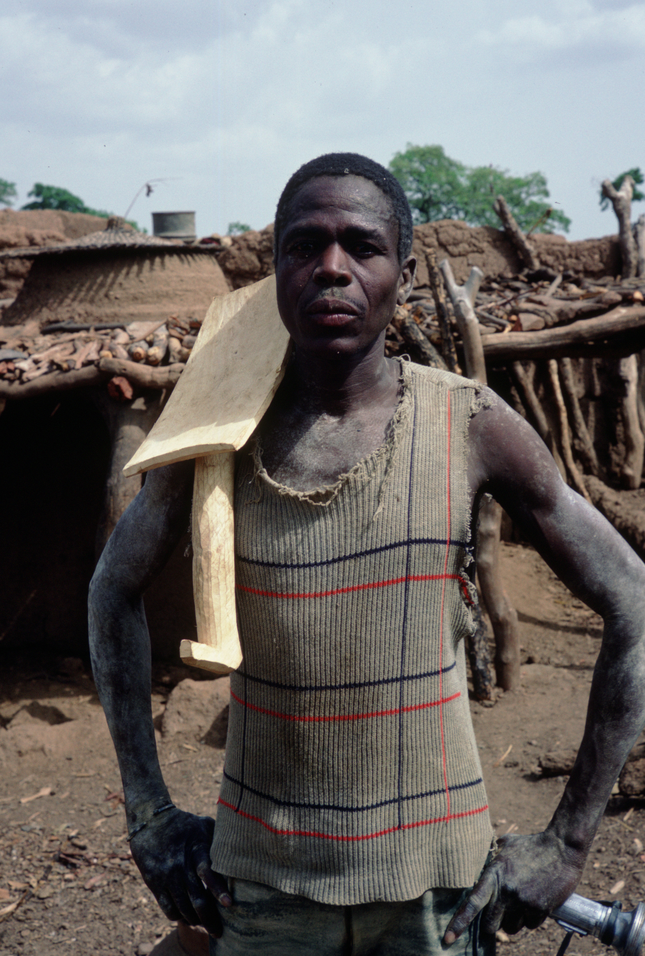 An artist in the village of Dako, Burkina Faso, with a newly carved stool.